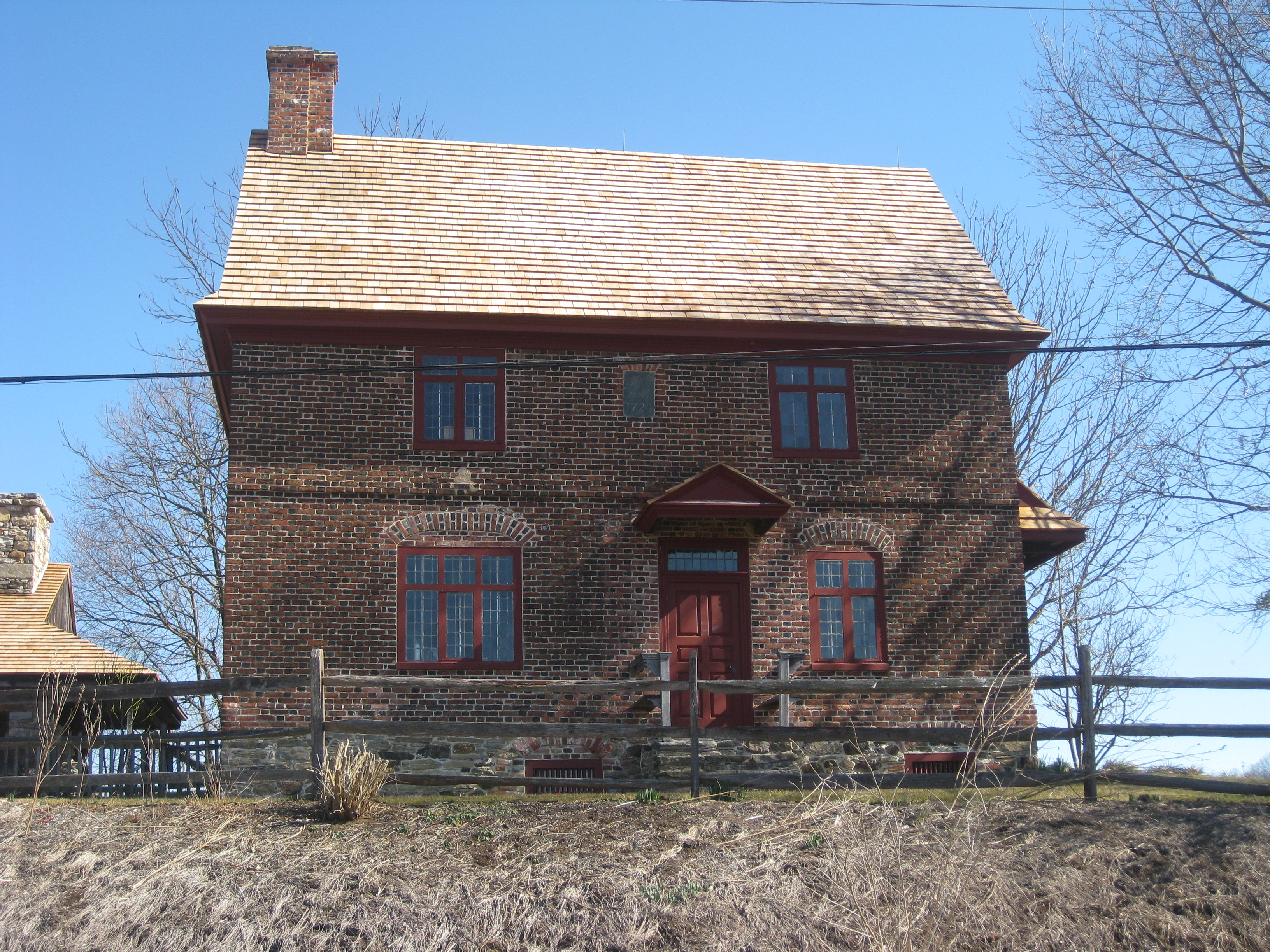 This is the Abiah Taylor House ("Taylor 1724 house"), a contributing element of the Taylor-Cope Historic District. It should not be confused with the Abiah Taylor House ("Taylor 1768 house" or Taylor-Parke House) nearby.